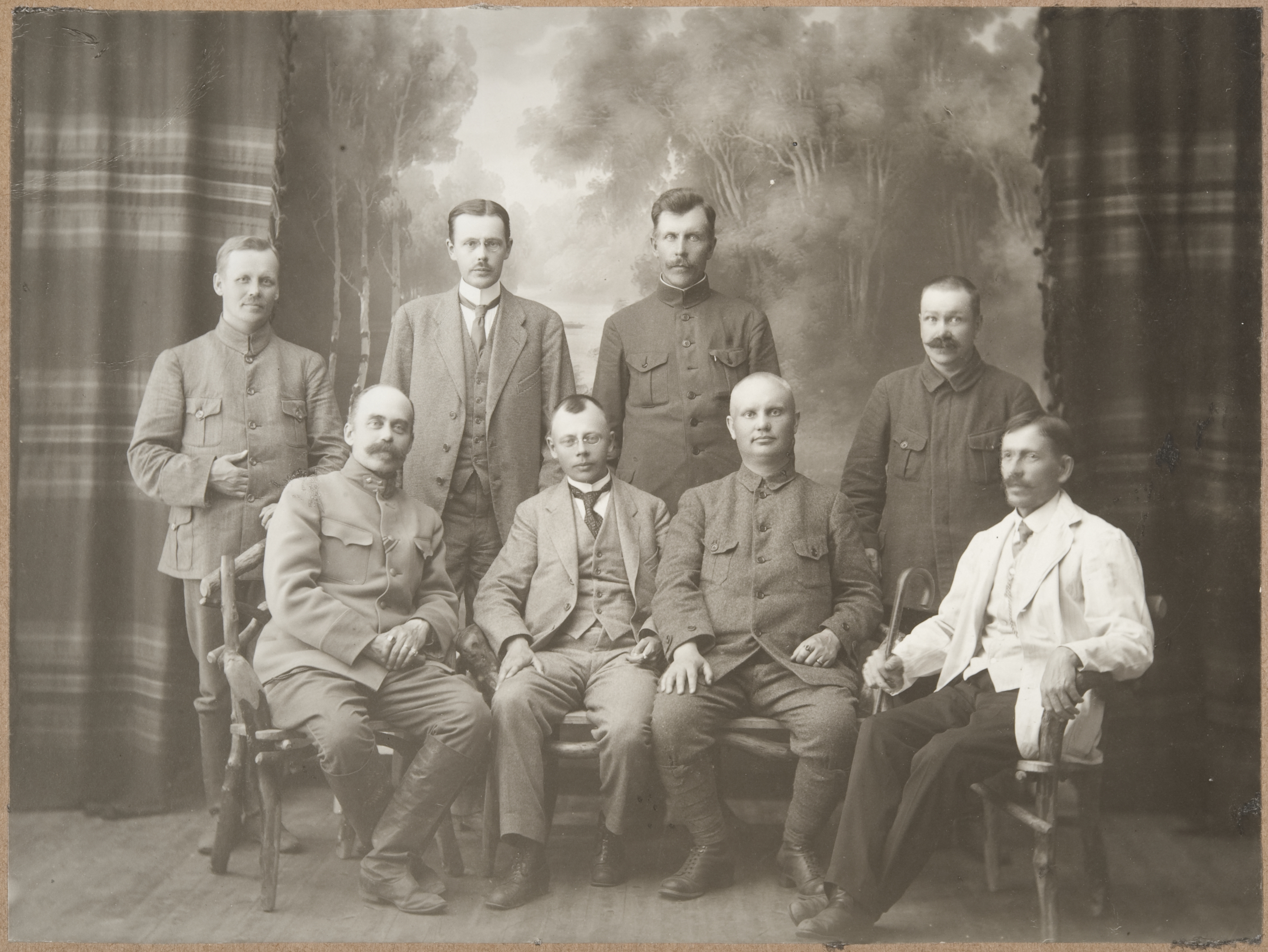 Finnish occupation government in Aunus during the 1919 Aunus expedition.